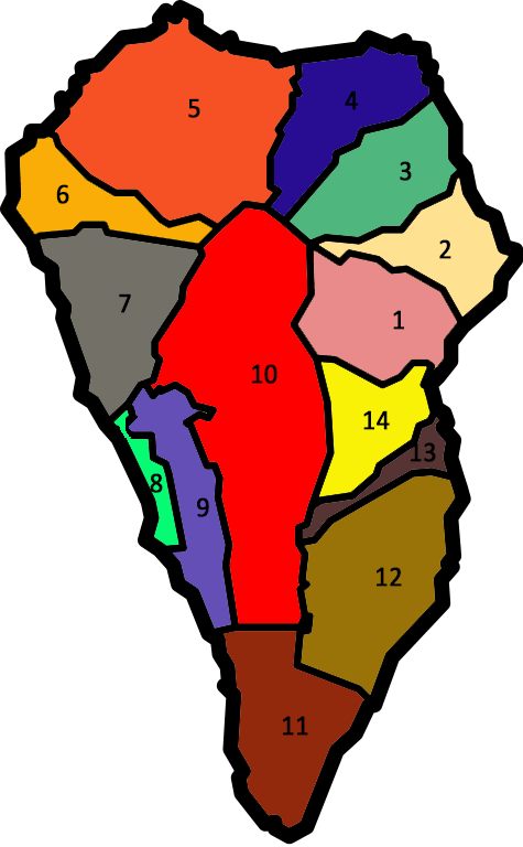 Municipalities of La Palma, Canary Islands.